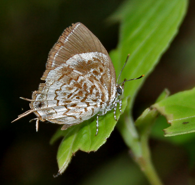 Monkey Puzzle Rathinda amor in Talakona forest, in Chittoor District of Andhra Pradesh, India.